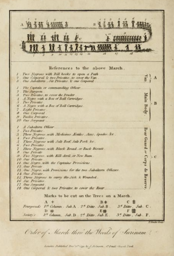 This drawing describes how a military expedition in 1773 against the revolting slaves in the Dutch Colony of Surinam was set up. Engraving from John Gabriel Stedman's Narrative of a Five Years Expedition against the Revolted Negroes of Surinam (1796)